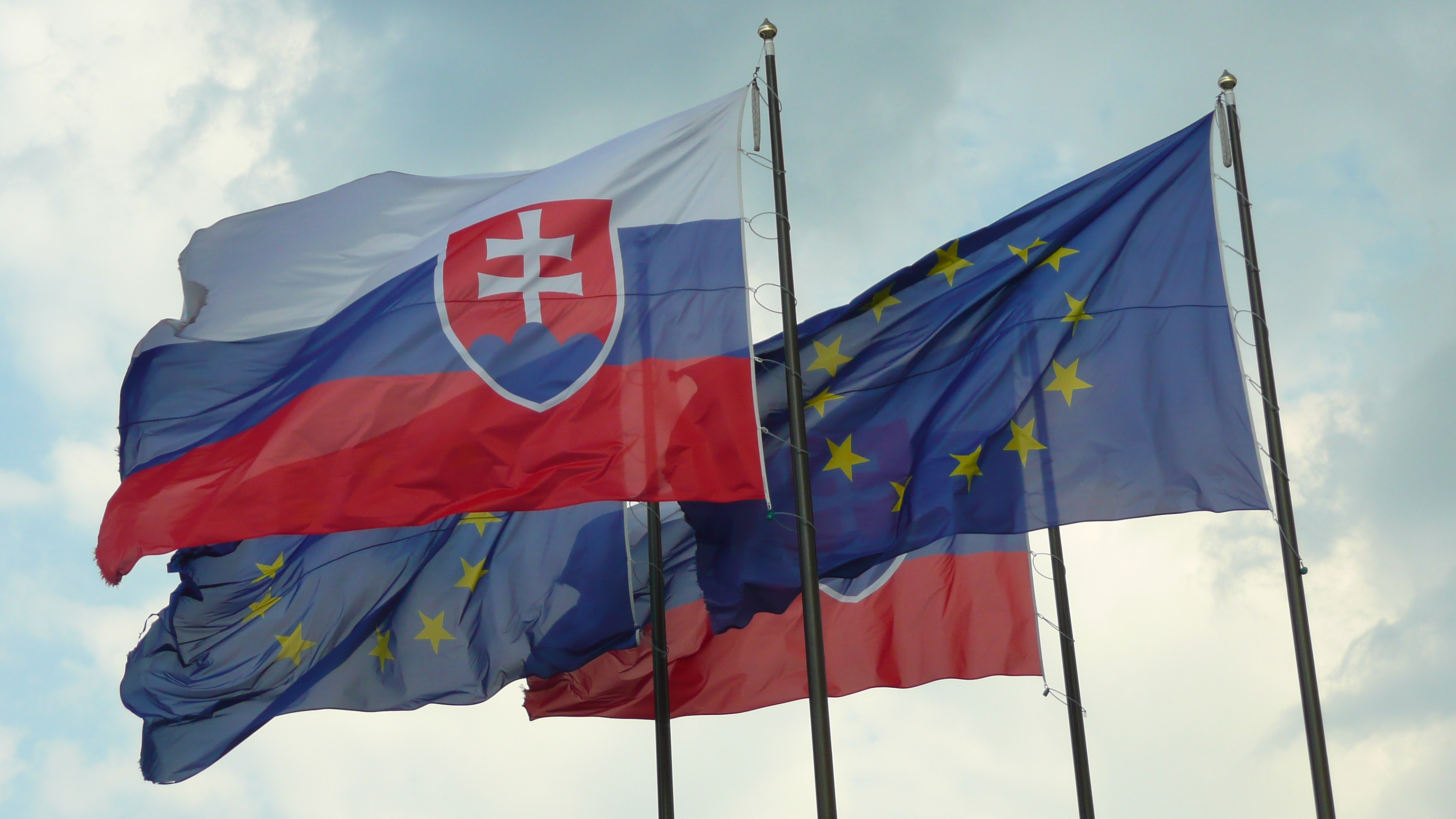 Flag of Slovakia and European union near National Council of the Slovak Republic in Bratislava.